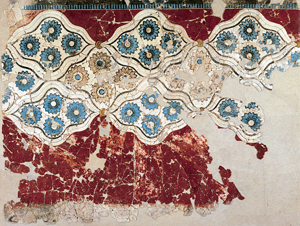 Fresco of decorative patterns in the form of rosettes from the bronze age excavation at Akrotiri on the island of Santorini, Greece.